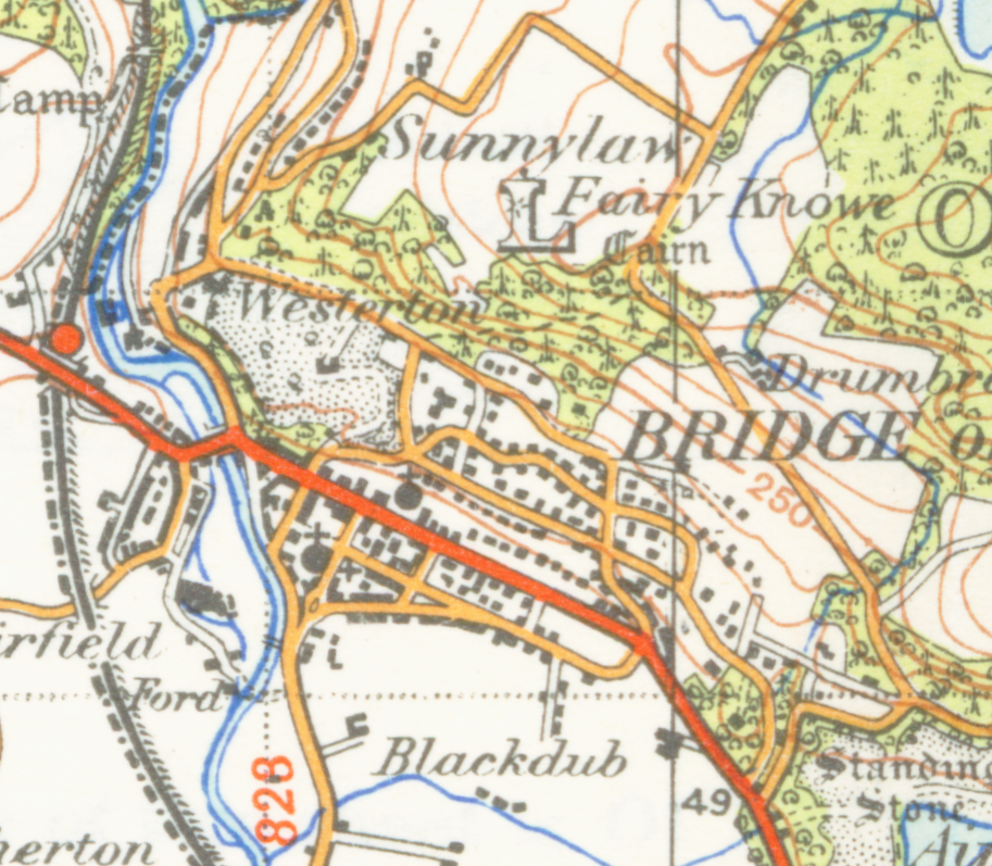 map of Bridge of Allan 1 inch to the mile scale scanned at 600 DPI